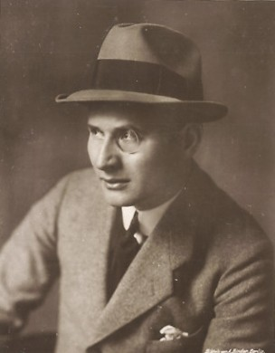 Portrait of German actor Julius Falkenstein (1879–1933) by Alexander Binder, Berlin.